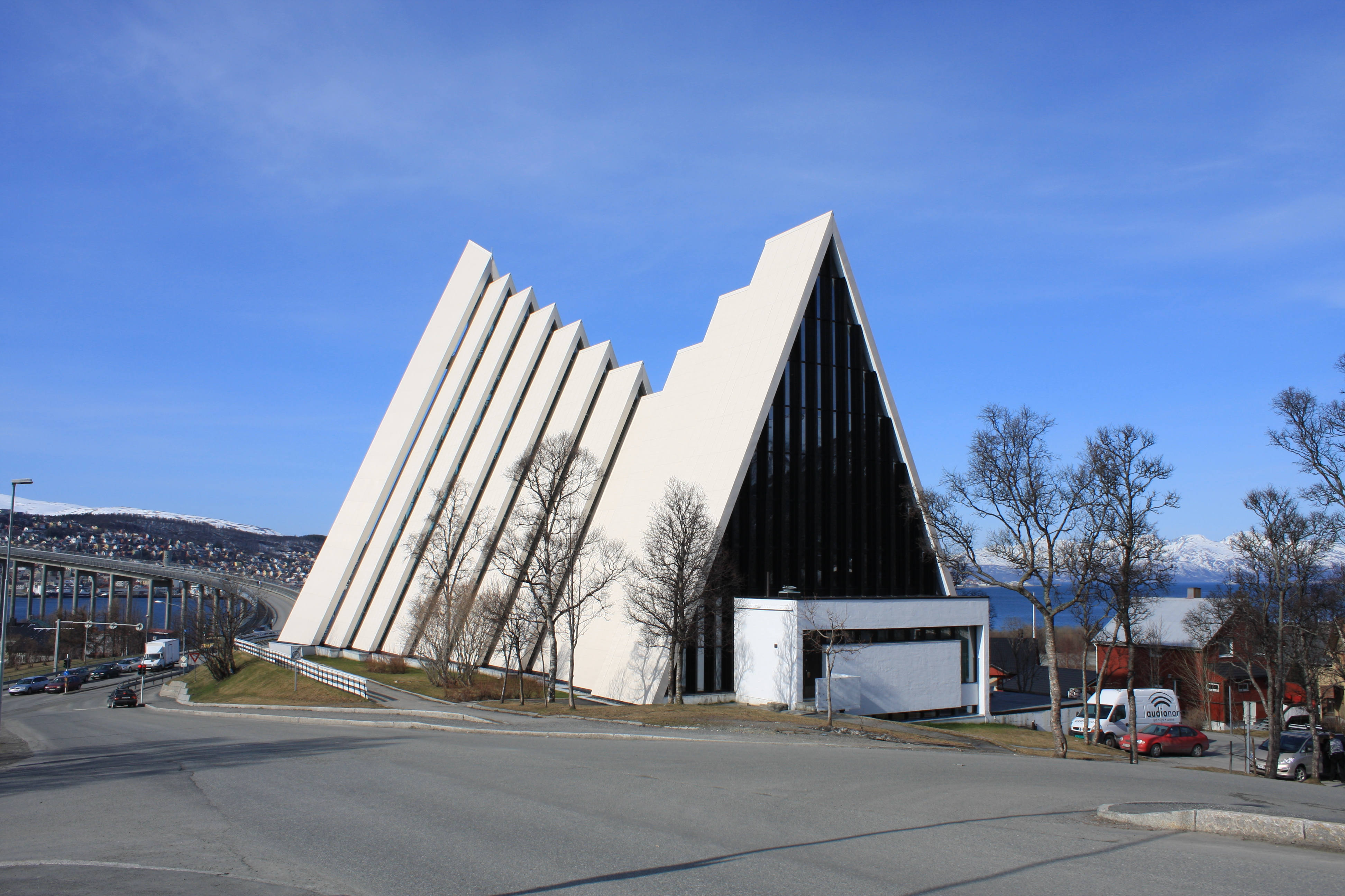 Ishavskatedralen in Tromsø from the south